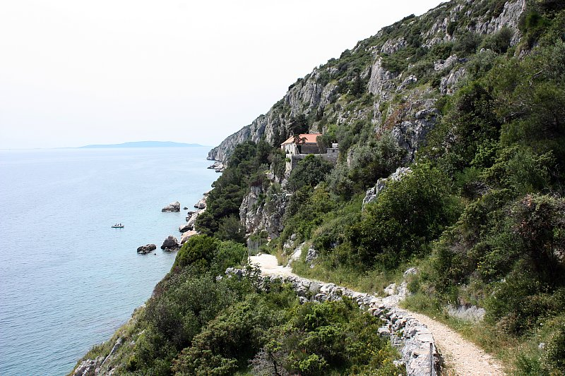 Čiovo Island, Gospa Prizidnica, Croatia